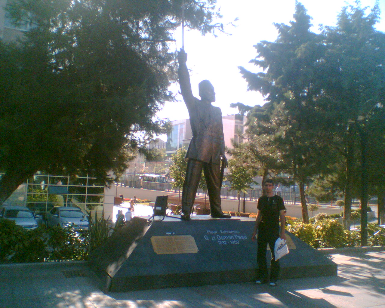 Statue of Osman Pasha, Gaziosmanpaşa, İstanbul.